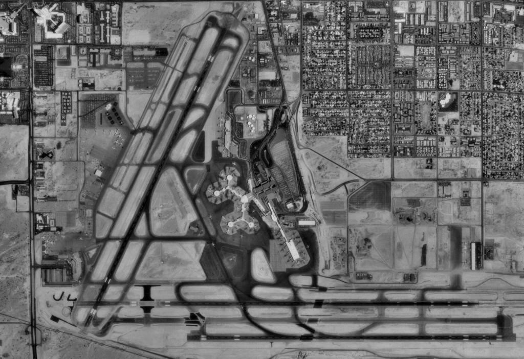 USGS image of McCarran International Airport (LAS) in Las Vegas, Nevada, United States.